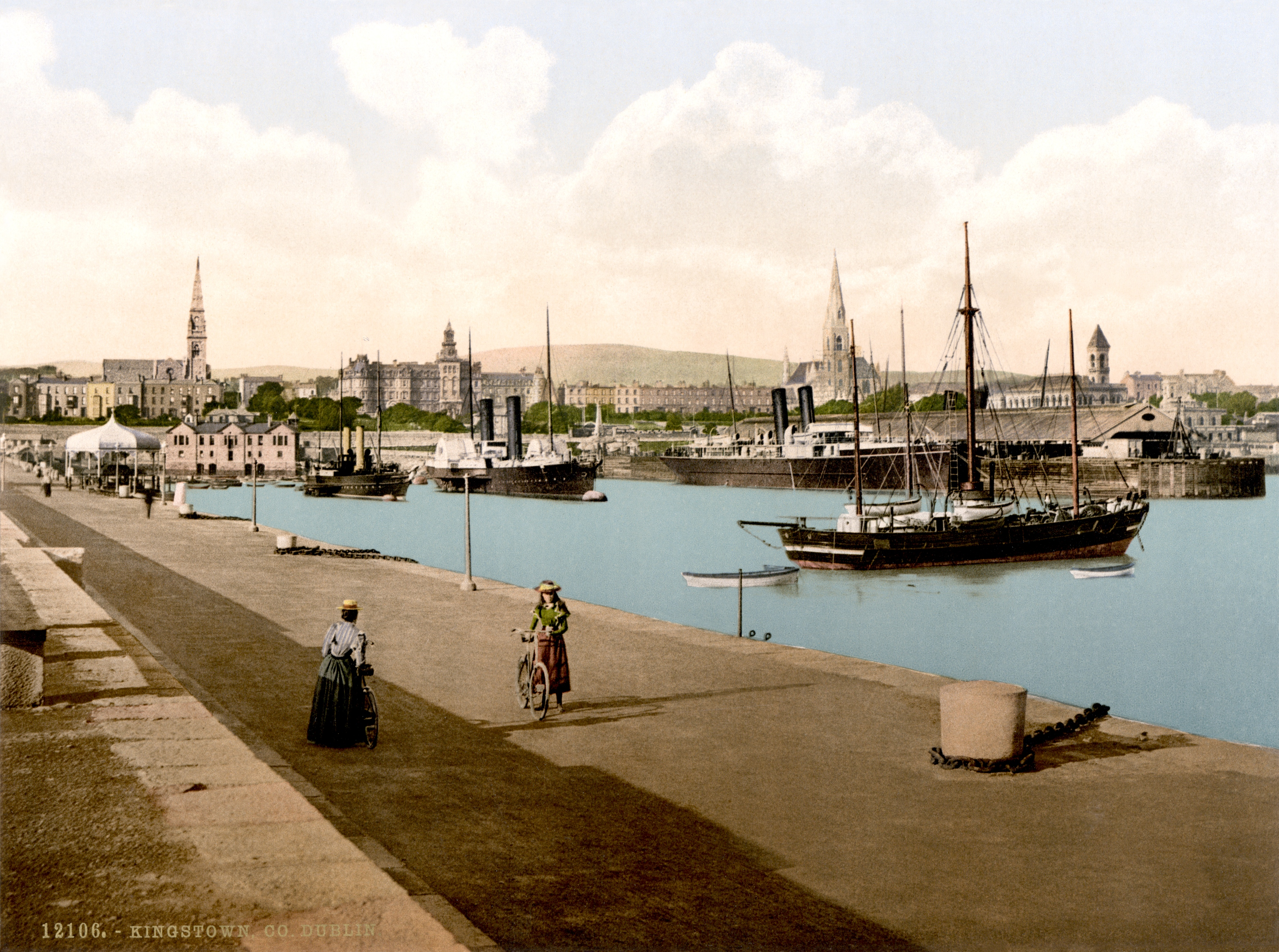 The harbour in Kingstown [now Dún Laoghaire], Co. Dublin, Ireland, in about 1895. Photochrom print.